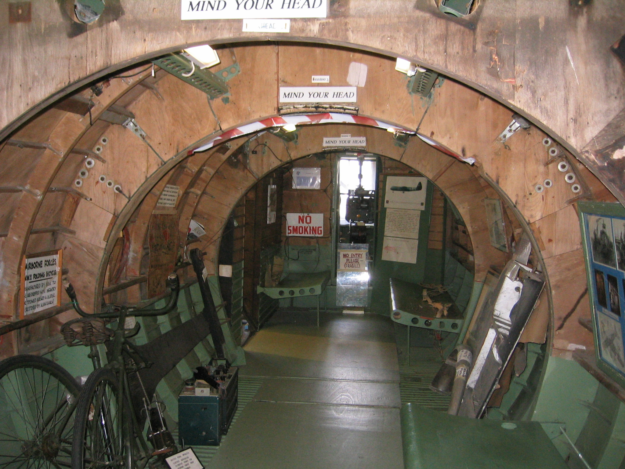 Airspeed Horsa Inside complete with folding bike